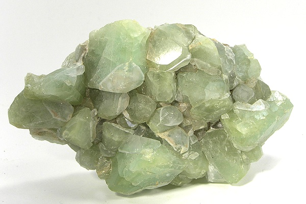 Datolite Locality: Dal'negorsk (Dalnegorsk; Tetyukhe; Tjetjuche; Tetjuche), Primorskiy Kray, Far-Eastern Region, Russia (Locality at ) A BIG plate of pretty sea-foam green crystals of datolite, measuring up to 2.5 cm across. Nice luster! 11.0 x 6.8 x 3.7cm